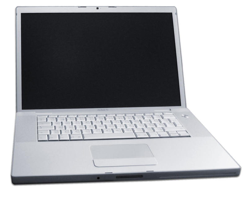 An Apple MacBook Pro. Derived from this photograph from flickr, taken by Jarkko Laine (supervillain) and released as CC-BY-2.0. Derived again: added transparency.